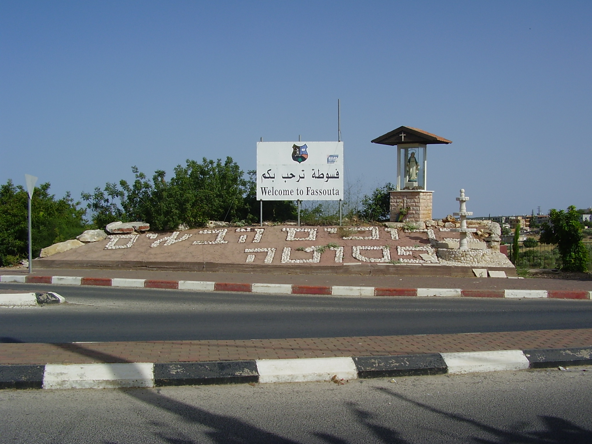 Entrance to Fassuta in the Upper Galilee